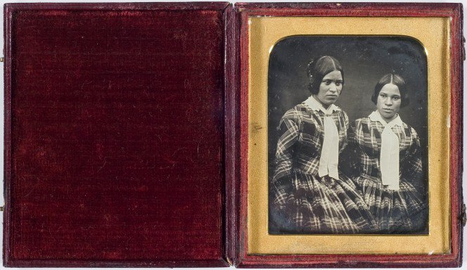 This is the earliest known photographic portrait of Maori peoples. These are Caroline and Sarah Barrett, photographed by Lawson Insley around 1852-3. It is daguerreotype on silver in a special case. [1]